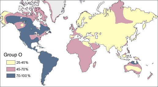 For the original details of this image, see File:Mapa_del_grupo_O.GIF by User:Maulucioni User:Maulucioni had a description of